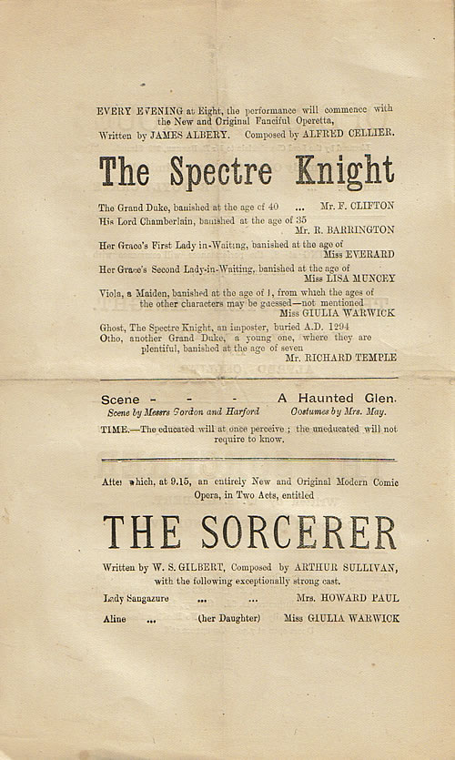 Theatre programme for The Spectre Knight and The Sorcerer at the Opera Comique, 18 February 1878 Public domain theatre programme from 1878